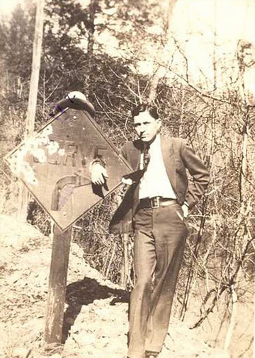 Clyde being a fool.